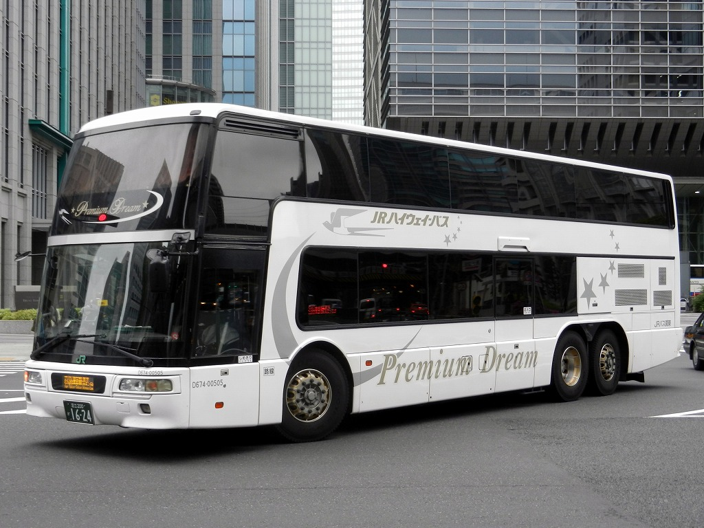 JR bus Kanto Mitsubishi Fuso Aero King(MU612TX) for highwaybus "Premium Dream"